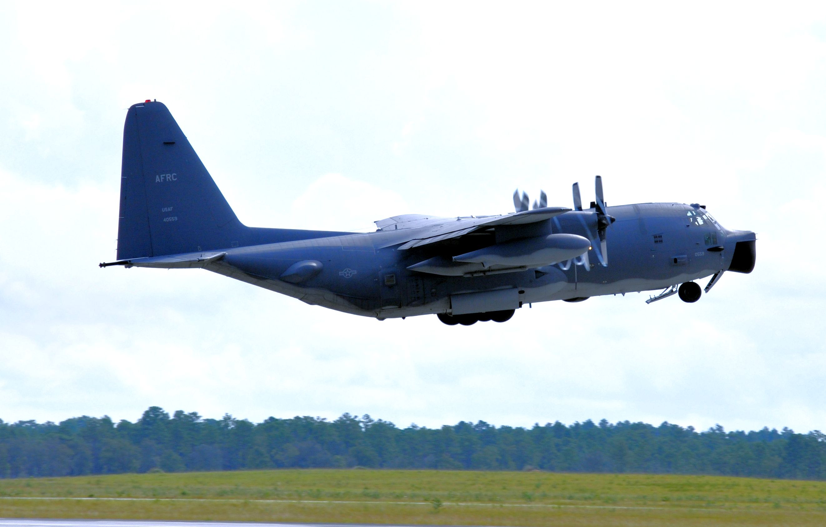 Aircraft #64-0559, an MC-130E Combat Talon I, takes off for the final time from its Duke Field, Fla. home Sept. 18, 2012 moments after it was officially retired from the 919th Special Operations Wing’s inventory. The aircraft, originally reassigned to Duke in 2000, flew to Kirtland Air Force Base, N.M., where it will be used on the ground as a fuselage trainer for the 58th SOW’s MC-130 schoolhouse. It was the seventh of 14 Duke Talons to retire and amassed more than 22,150 flying hours throughout its 47 years of cumulative Air Force service. (Courtesy photo)